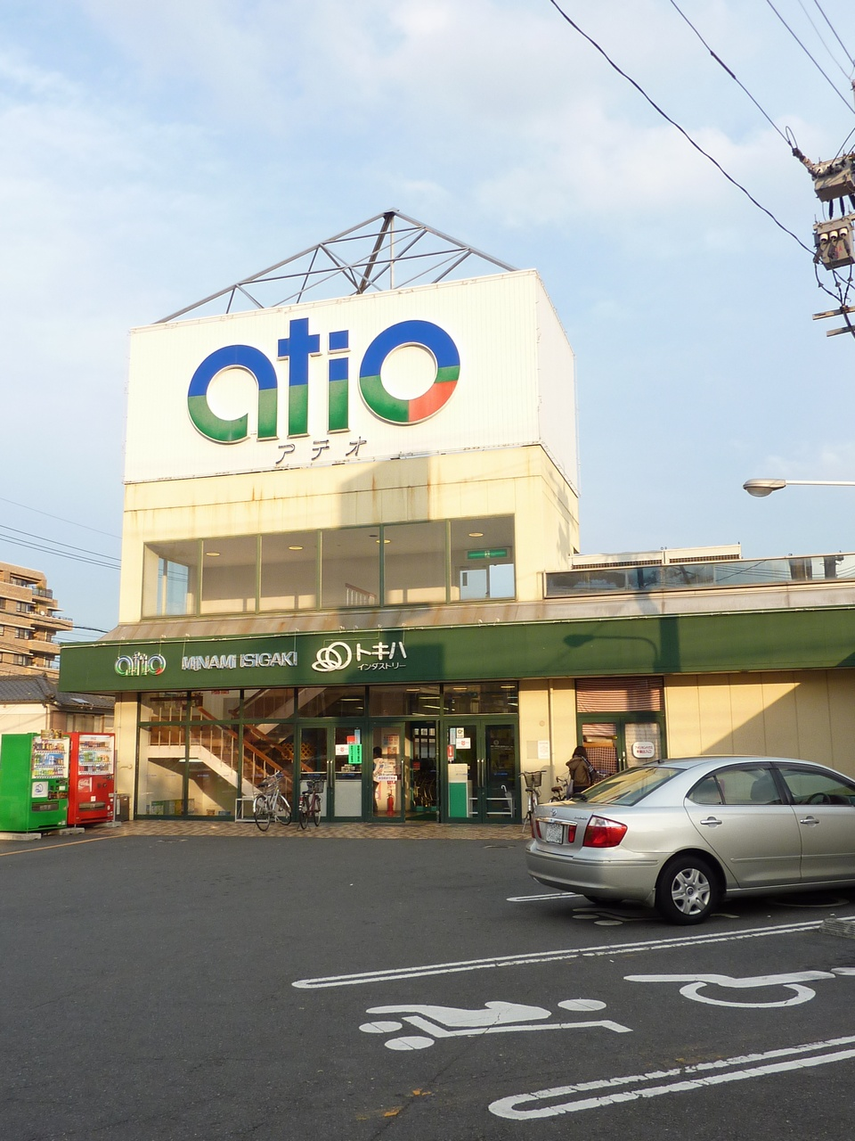 Tokiwa Industry - atio Minami-Ishigaki Store (Beppu City, Oita Prefecture, Japan)